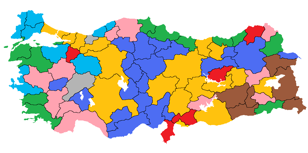 Source